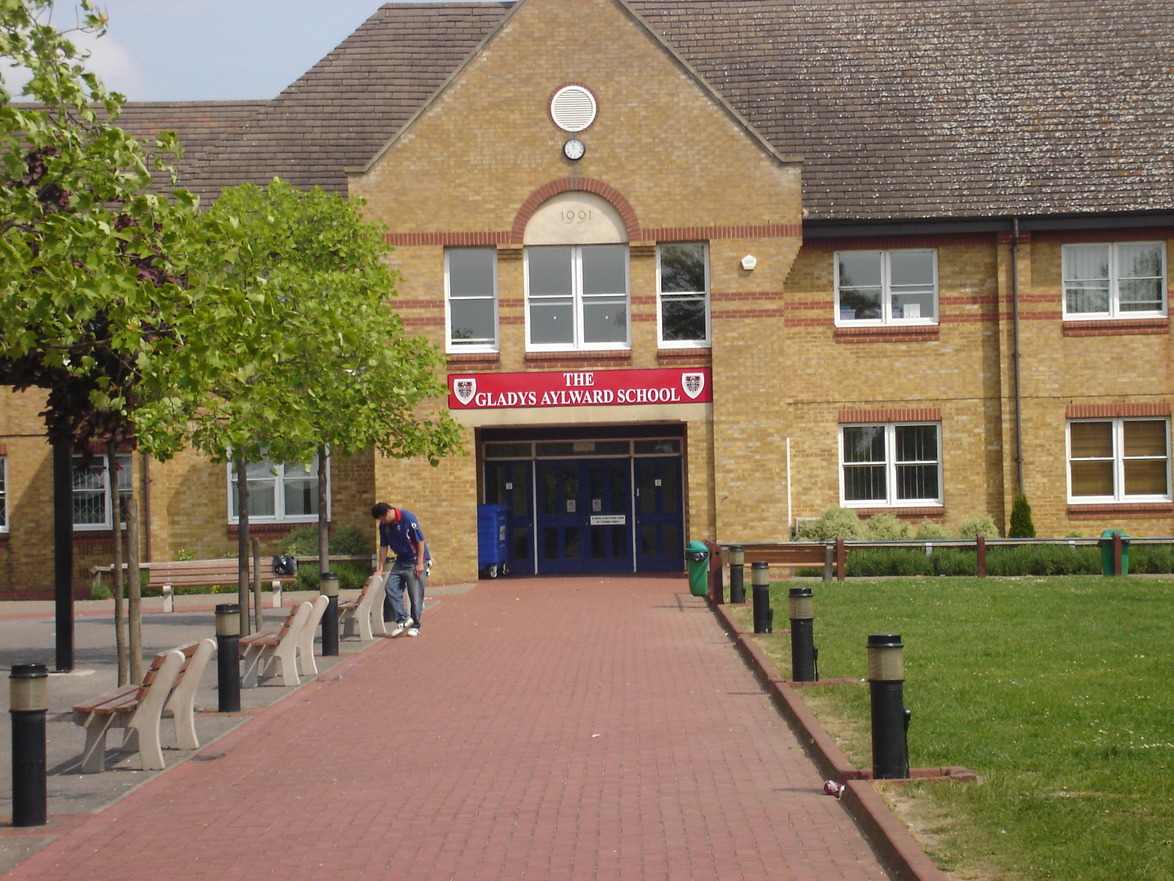 The Gladys Aylward School, Edmonton